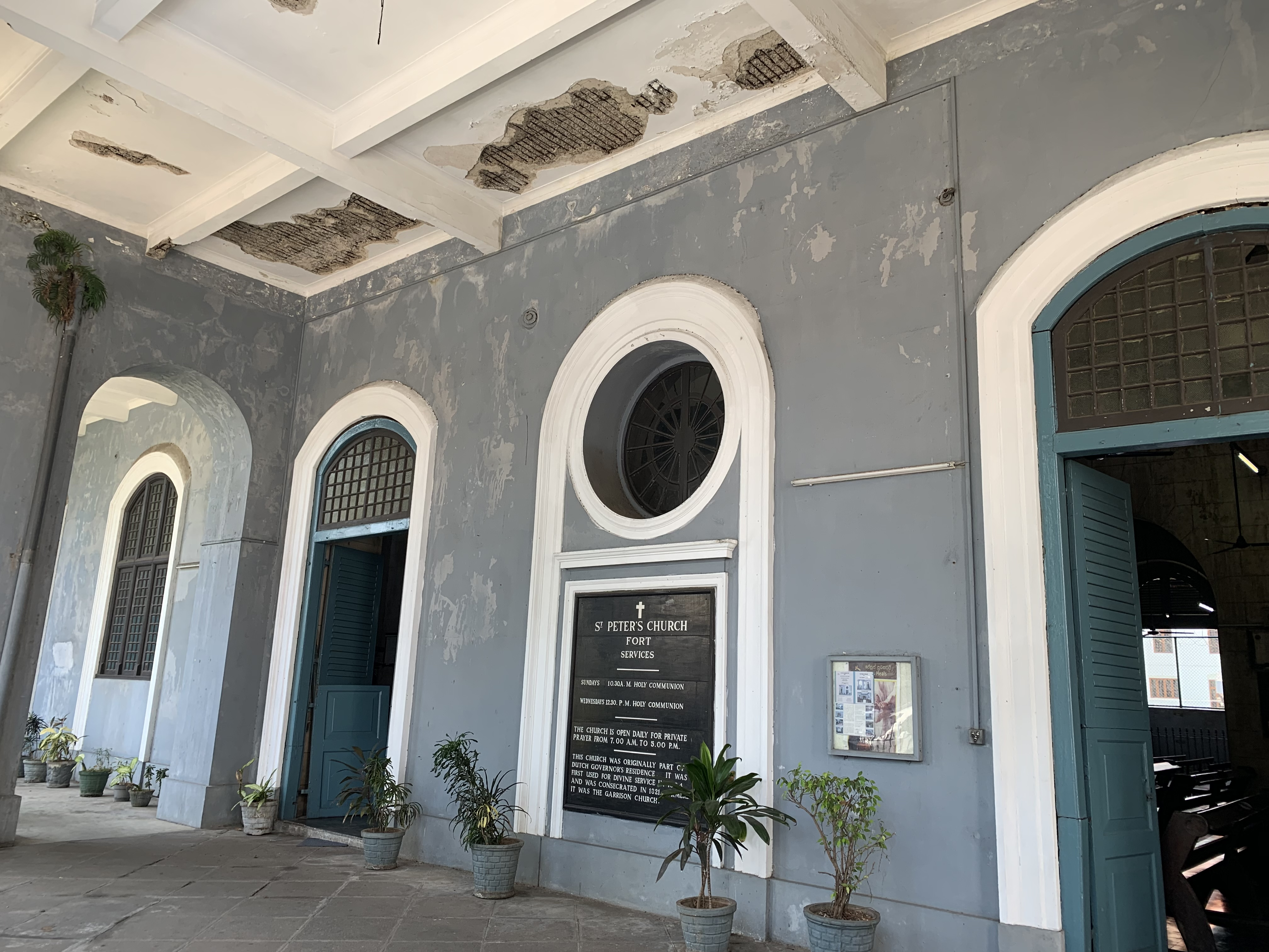 Formerly a Dutch Residence converted into a Church.